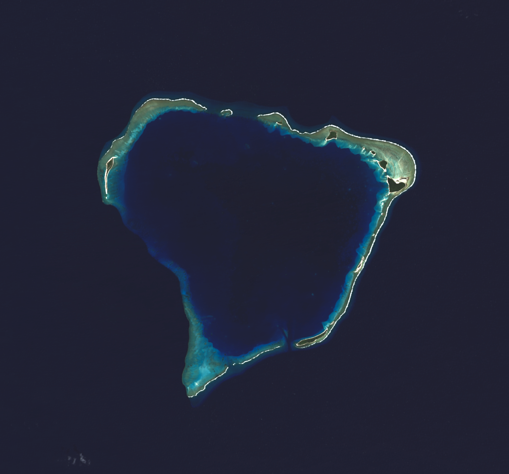 Composite "true color" multispectral satellite image of Rongerik Atoll. NASA Landsat 8 OLI bands used were 4 (red), 3 (green), 2 (blue). Pan-sharpened with band 8. Manual color balance. Projection: UTM (zone 59), WGS84. Imagery courtesy NASA/USGS.